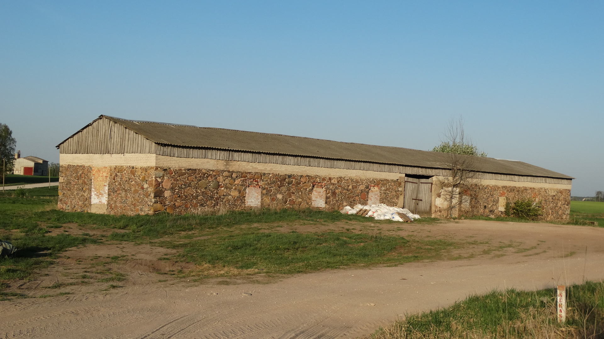 Taukuočiai, Radviliškis district, Lithuania